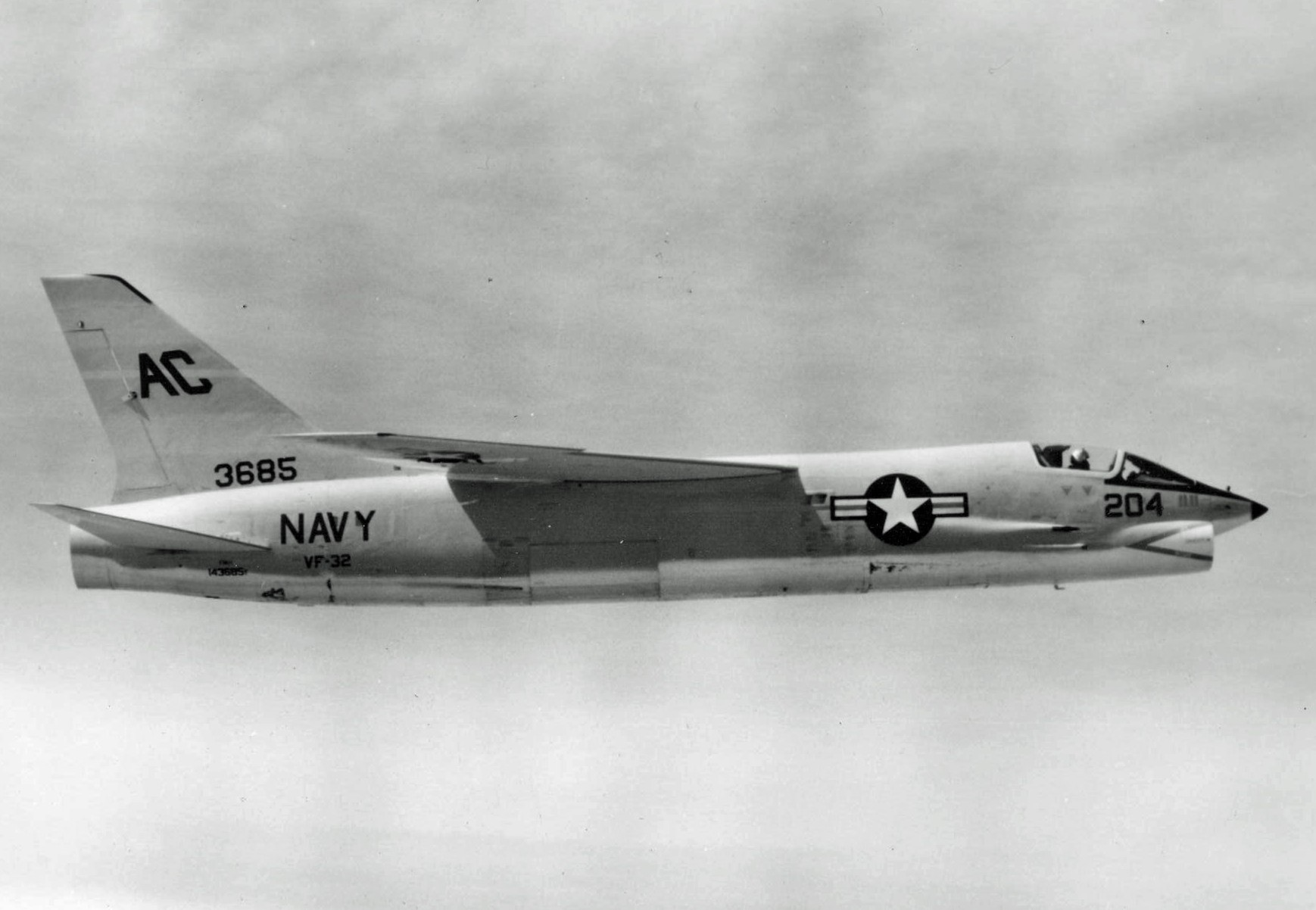 A U.S. Navy Vought F8U-1 Crusader (BuNo 143685) of fighter squadron VF-32 Swordsmen, Carrier Air Group 3 (CVG-3) from the aircraft carrier USS Saratoga (CVA-60), 1958.